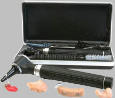 US VA website